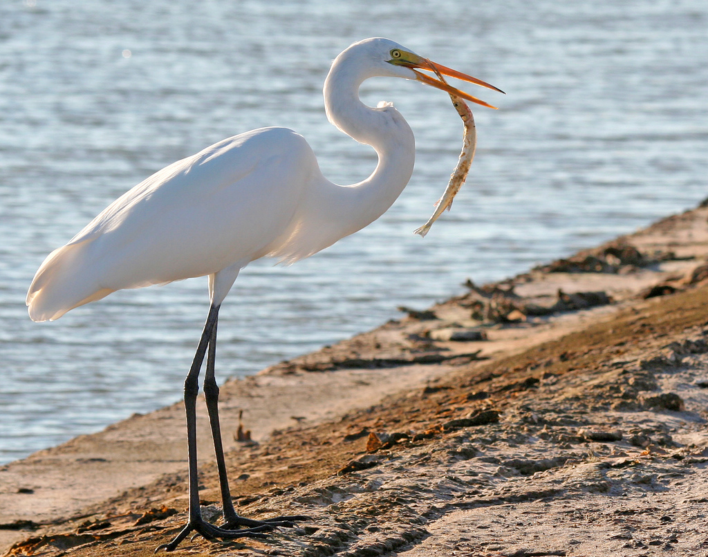 Eastern Great Egret with fish - Ardea modesta (Bangla:Sarosh)